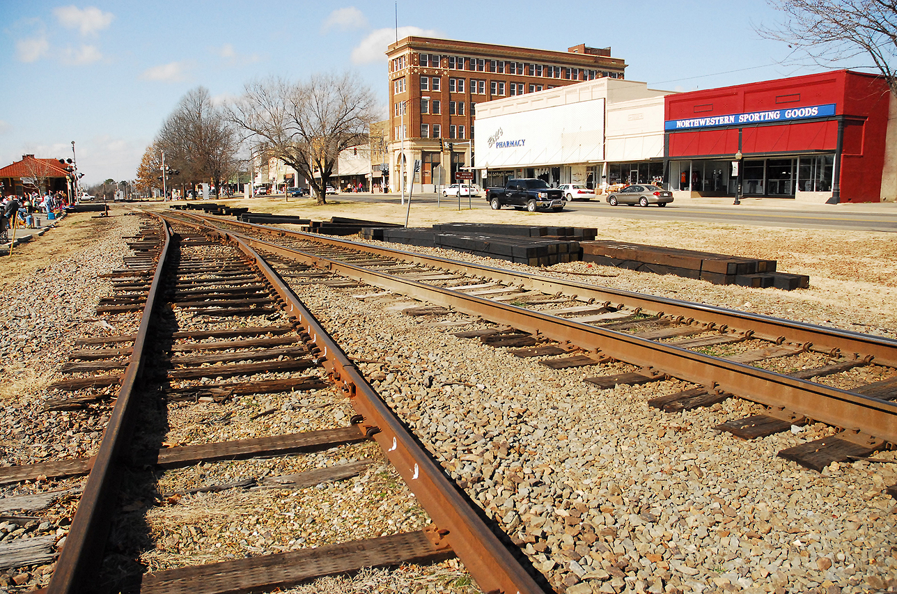 Historic downtown Morrilton